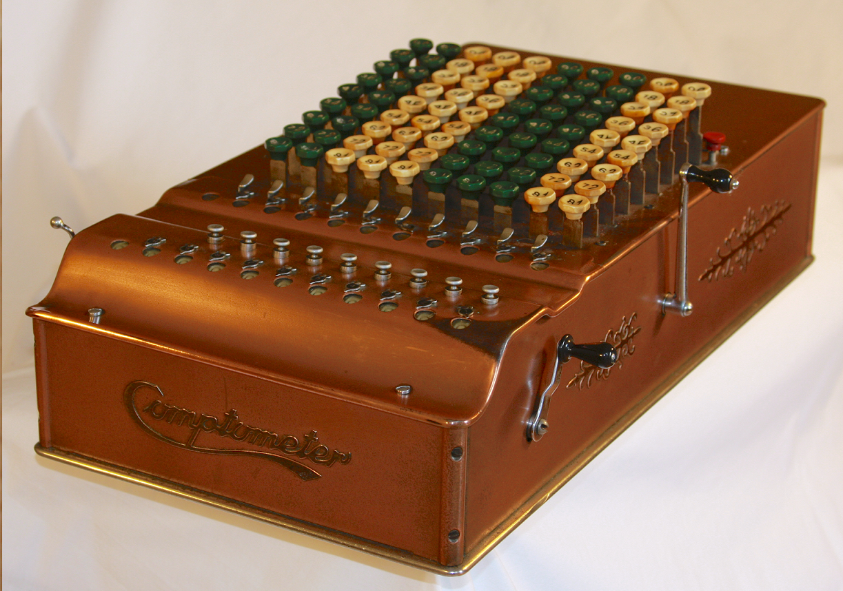 Comptometer ST from the 1930s called the Super Totalizer